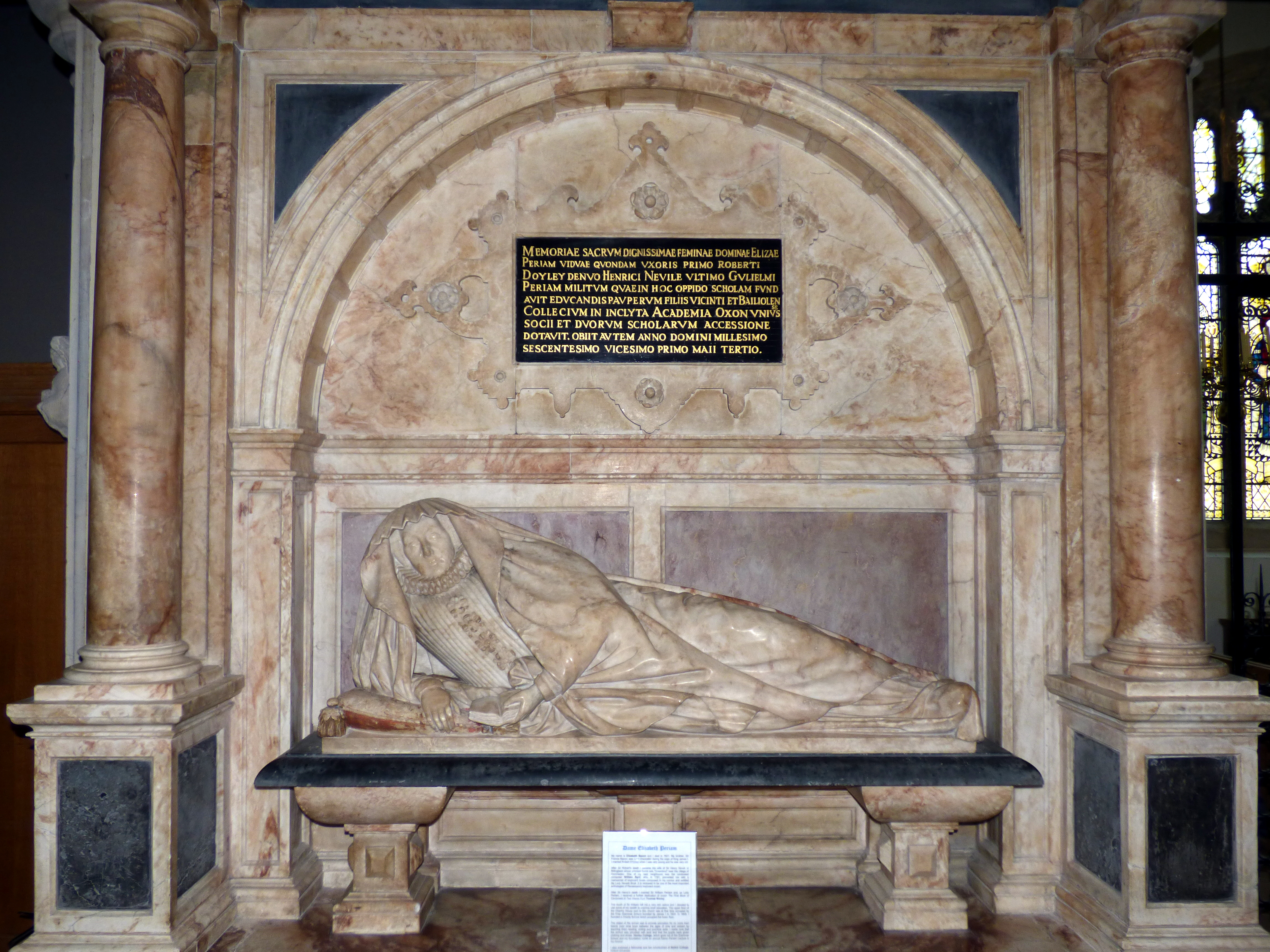 Monument in the parish church of St Mary the Virgin, Henley-on-Thames, Oxfordshire to Elizabeth Periam (née Bacon), who died in 1621